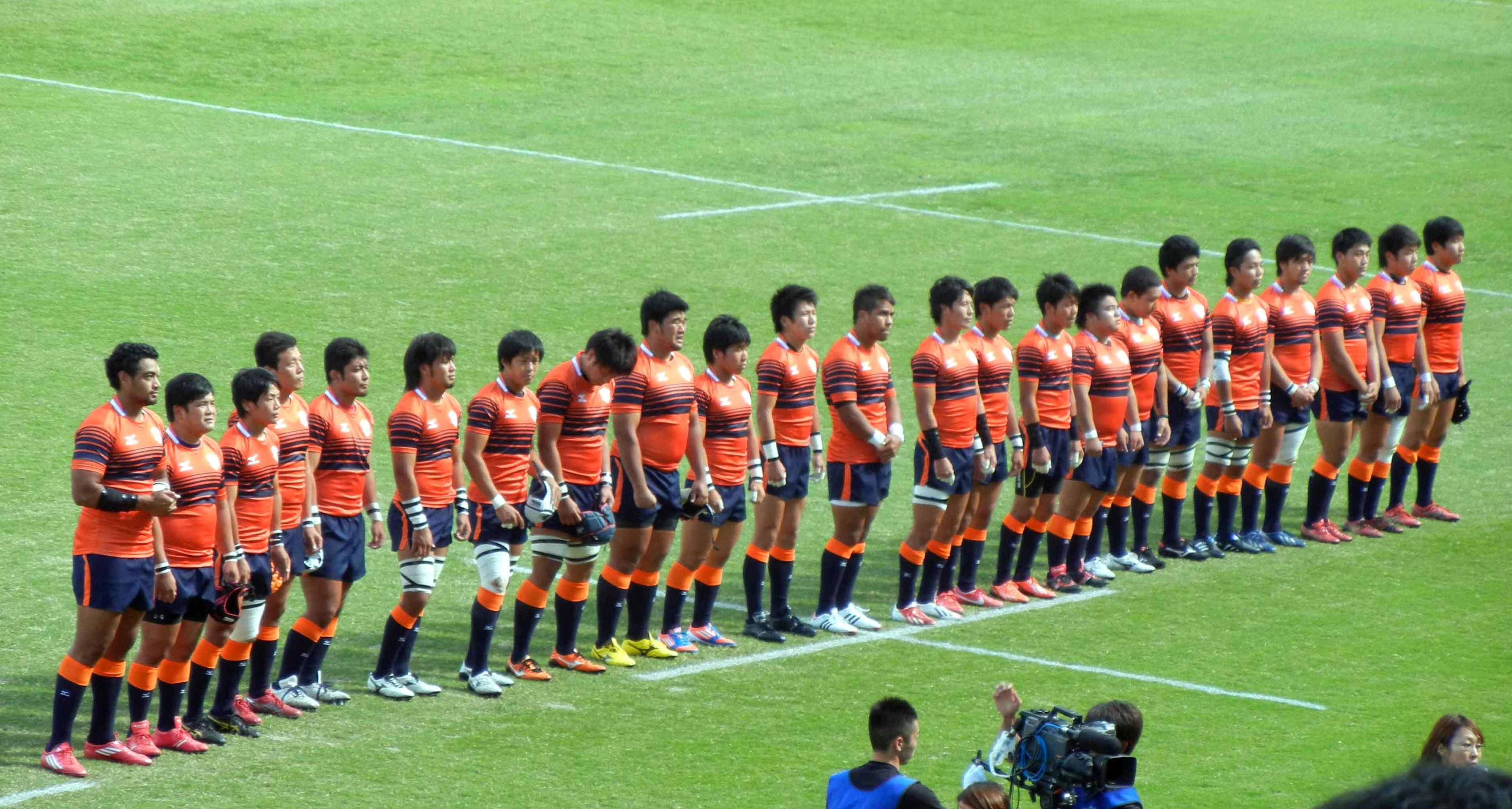 Takushoku University Rugby Football Club Players